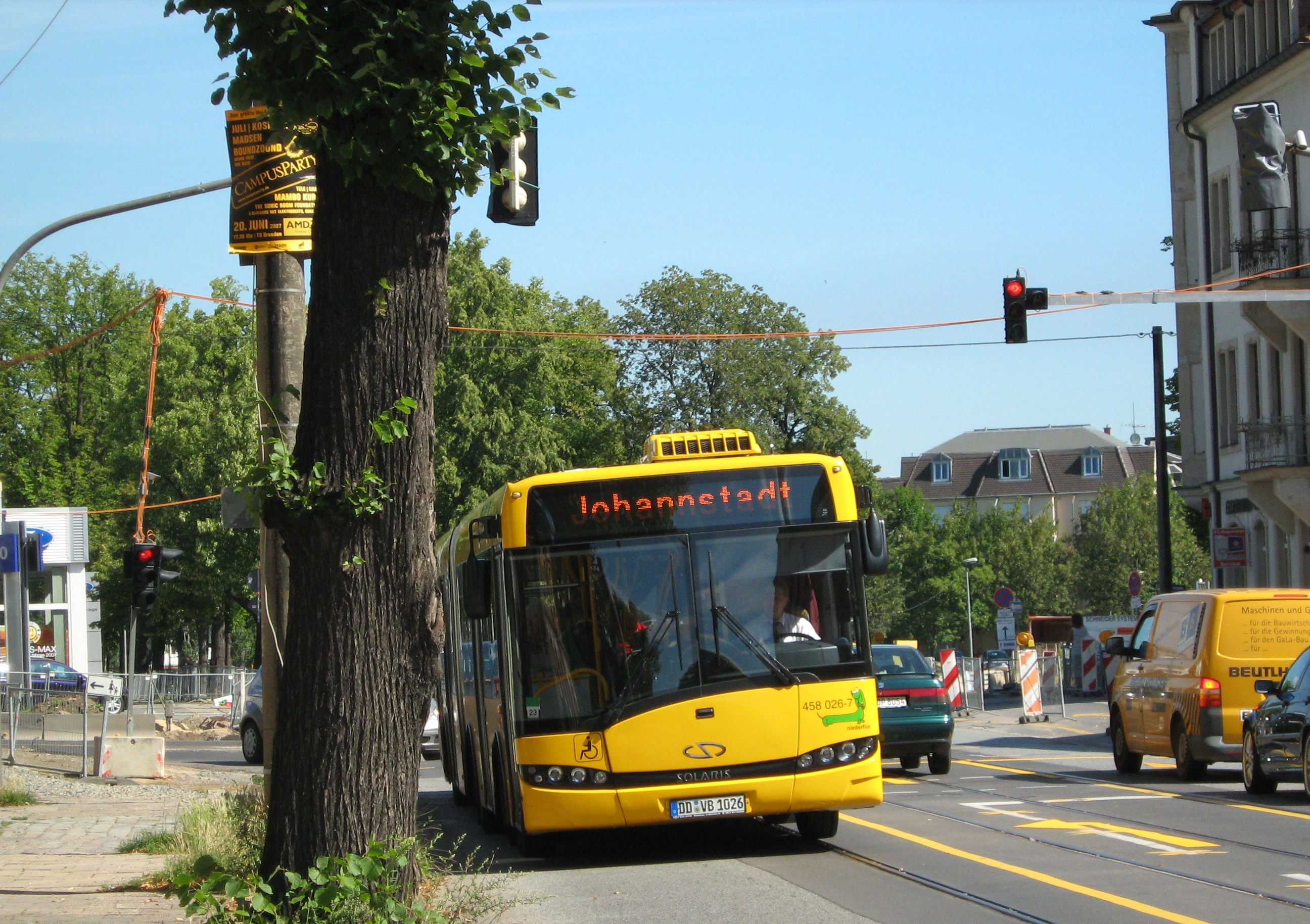 Solaris Urbino 18 bus (#458 026-7) in Dresden, Germany. Built 2006, DVB operator. Diesel engine.